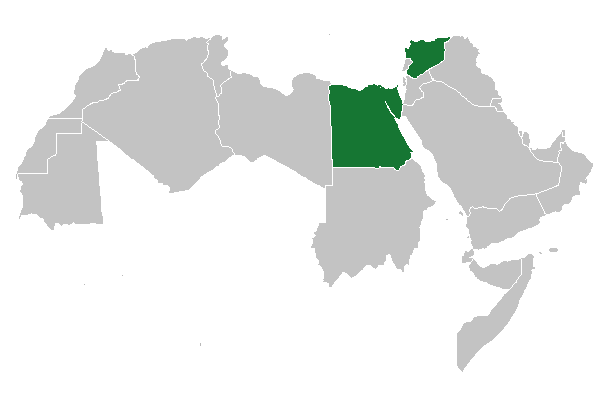 UAR, made of Syria, Egypt, and Gaza strip